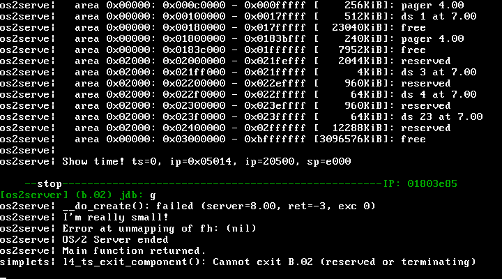 LiveCD osFree 0.0.4 in action.